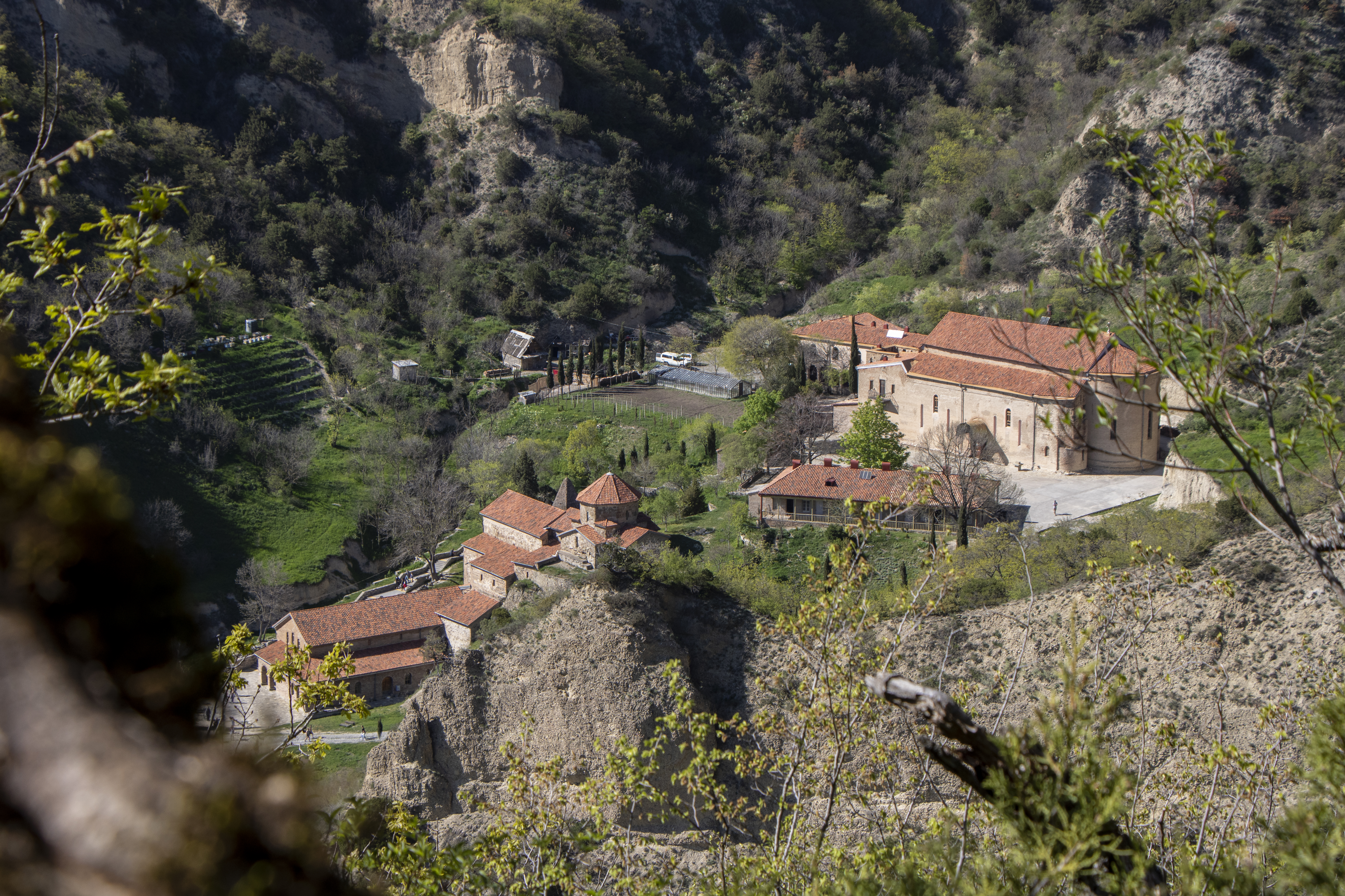 The Shio-Mgvime monastery (Georgian: შიომღვიმე, Shiomghvime, literally meaning "the cave of Shio") is a medieval monastic complex in Georgia, near the town of Mtskheta. It is located in a narrow limestone canyon on the northern bank of the Kura River, some 30 km from Tbilisi, Georgia’s capital.